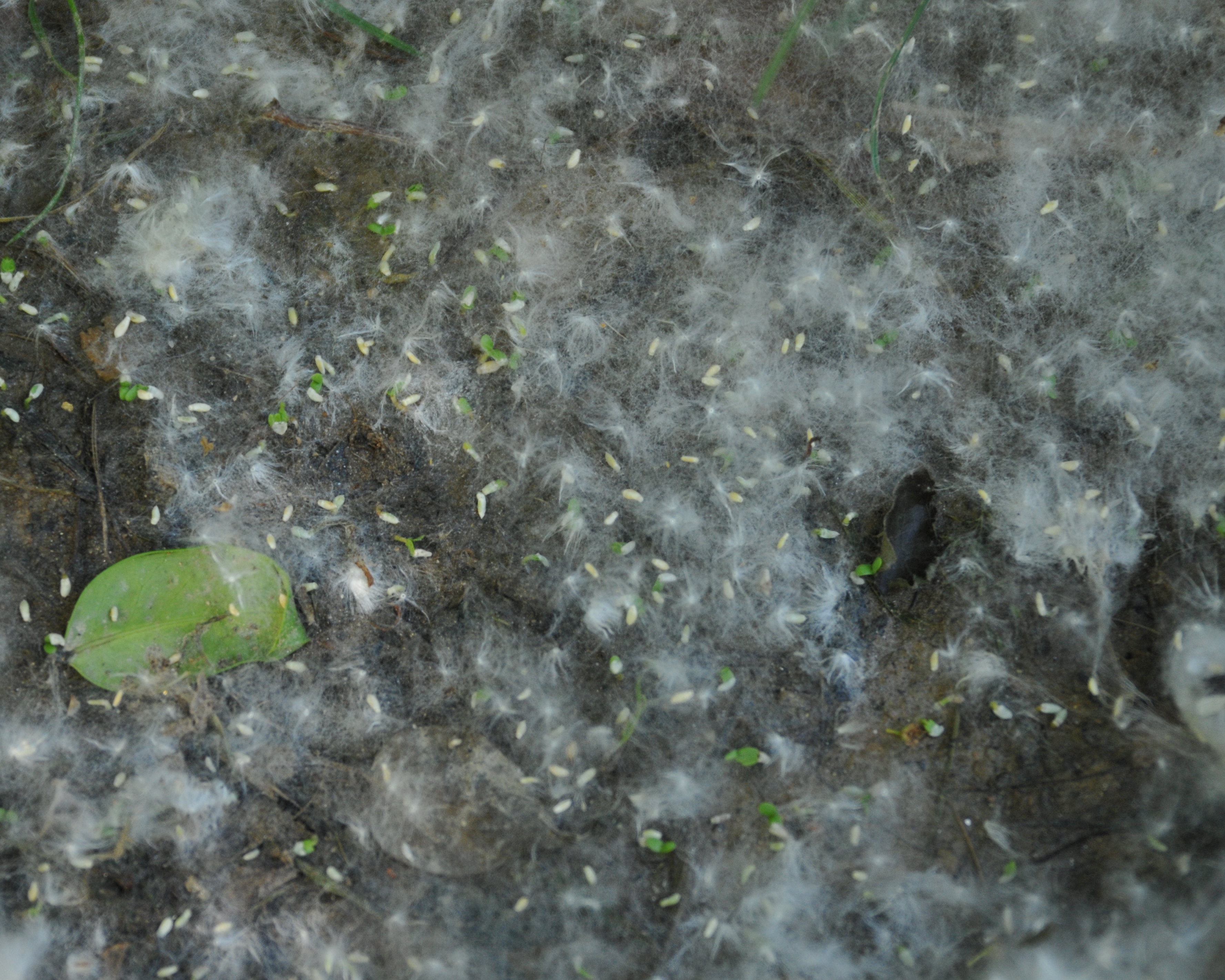 Fluffy "cotton" and seeds from an eastern cottonwood tree (P. deltoides subsp. deltoides)